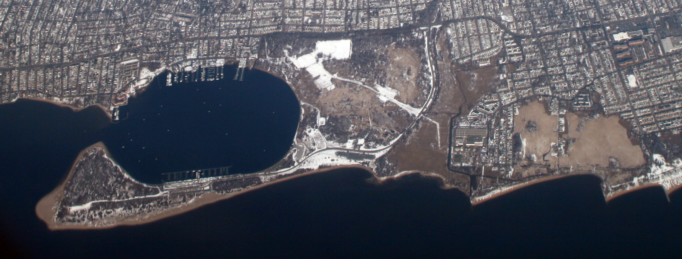 Foto take from a plane showing Great Kills park in winter 2010